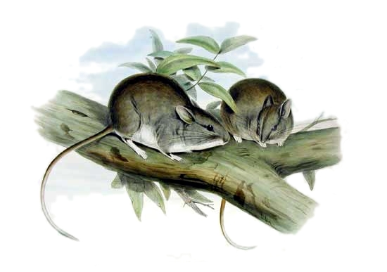 Leporillus apicalis (orig. Hapalotis apicalis)